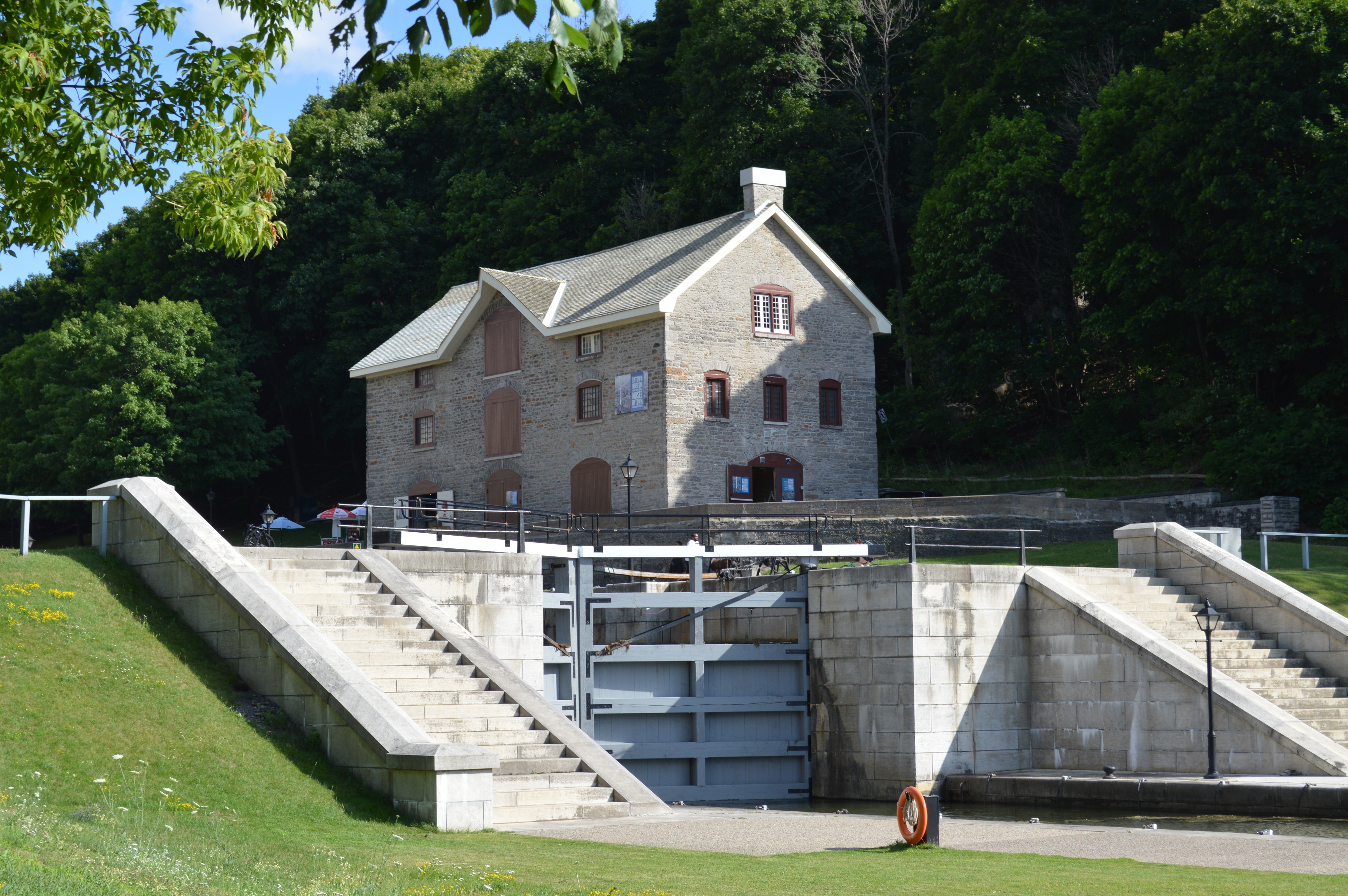 Exterior photo of the Bytown Museum